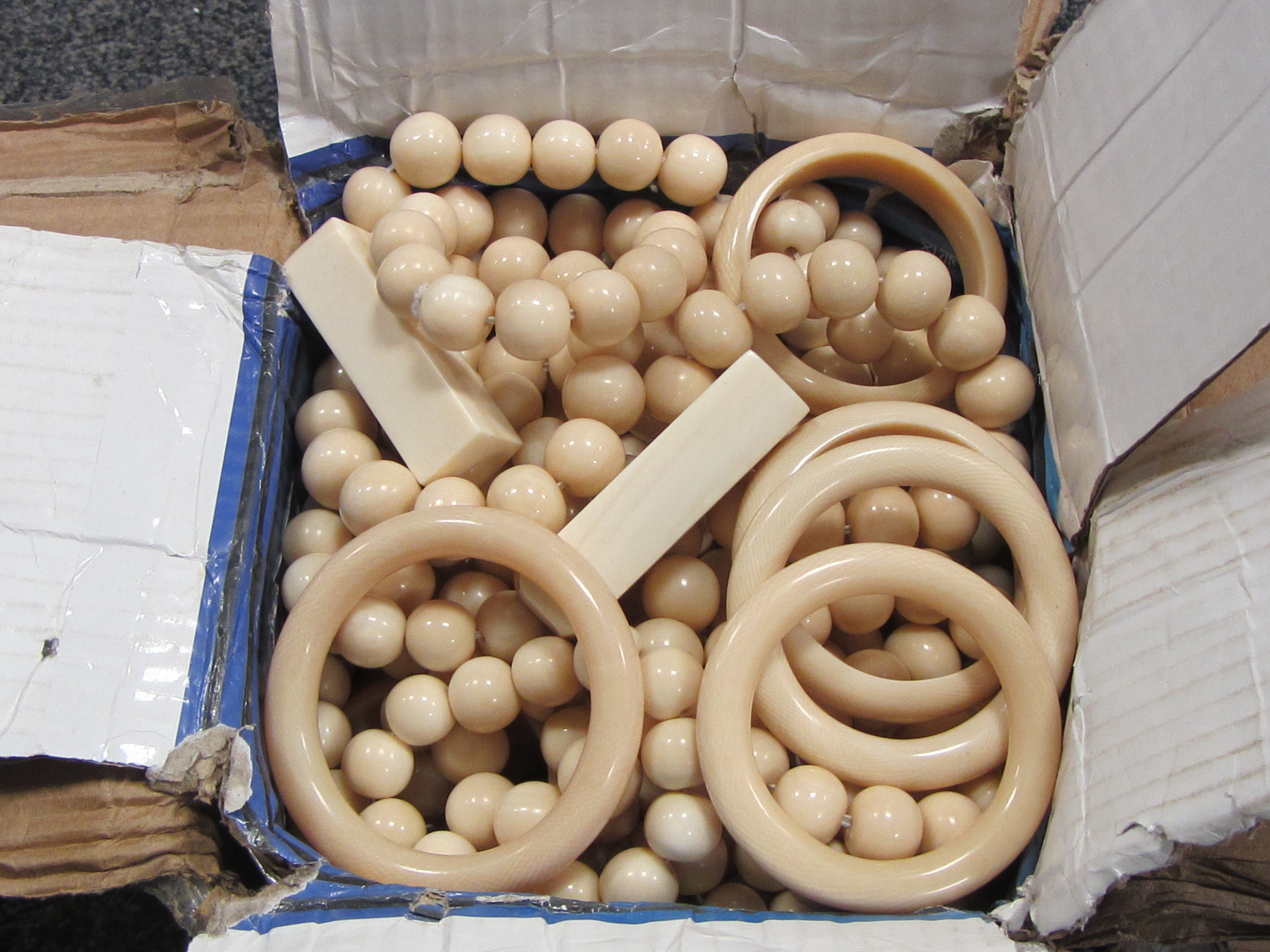 The consignment weighed around 15 kilos and contained several hundred carved items including bangles, beads, name seals and pendants. It was being smuggled from Nigeria to importers in Hong Kong and China. The consignment weighed around 15 kilos and contained several hundred carved items including bangles, beads, name seals and pendants. It was being smuggled from Nigeria to importers in Hong Kong and China.